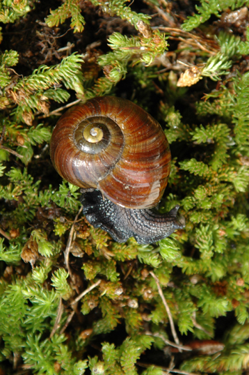 Powelliphanta augusta was discovered in 1996 by Nelson Botanical Society members, but DOC was unaware of its existence till early 2004. It is now confined to a 4 ha site just north of Mt Augustus on the Stockton coal plateau. All of this snail's remaining habitat was destroyed through expansion of the Stockton open-cast coal mine in 2005.